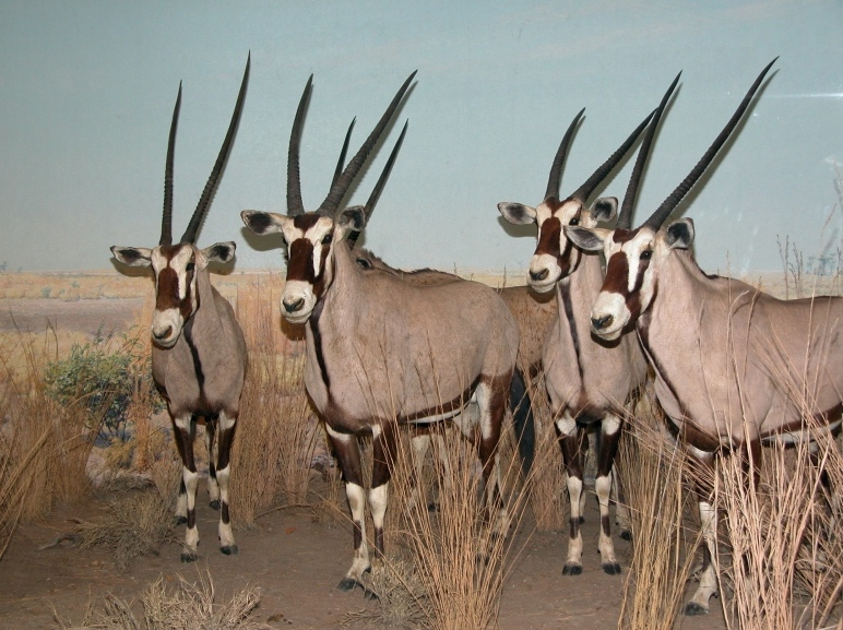 Oryx gazella, American Museum of Natural History, New York, USA